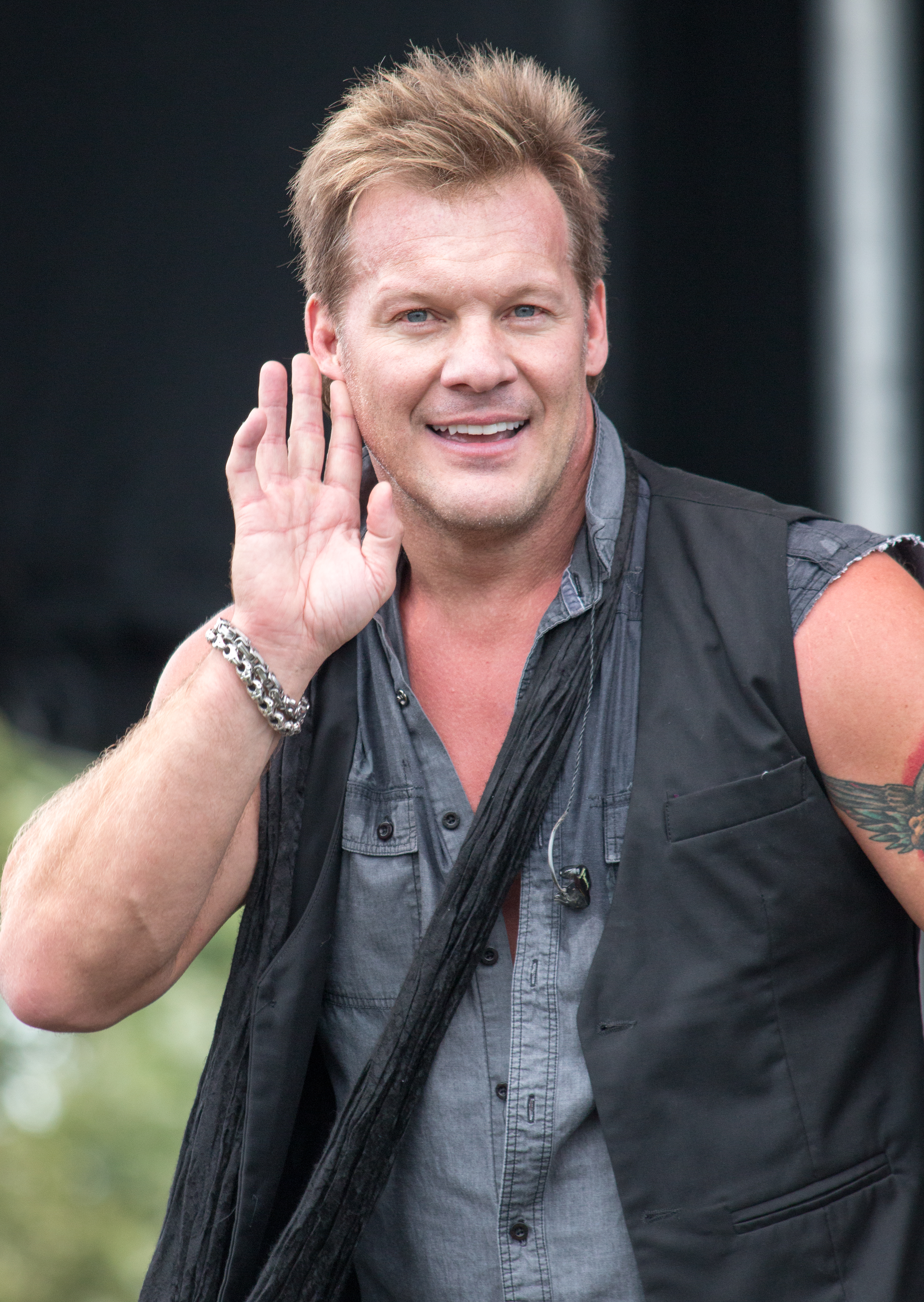 Chris Jericho of the band Fozzy performing at the 2015 Festival of Friends in Ancaster, ON. Chris is asking, "Who took my sleeves?" and is listening for a response.